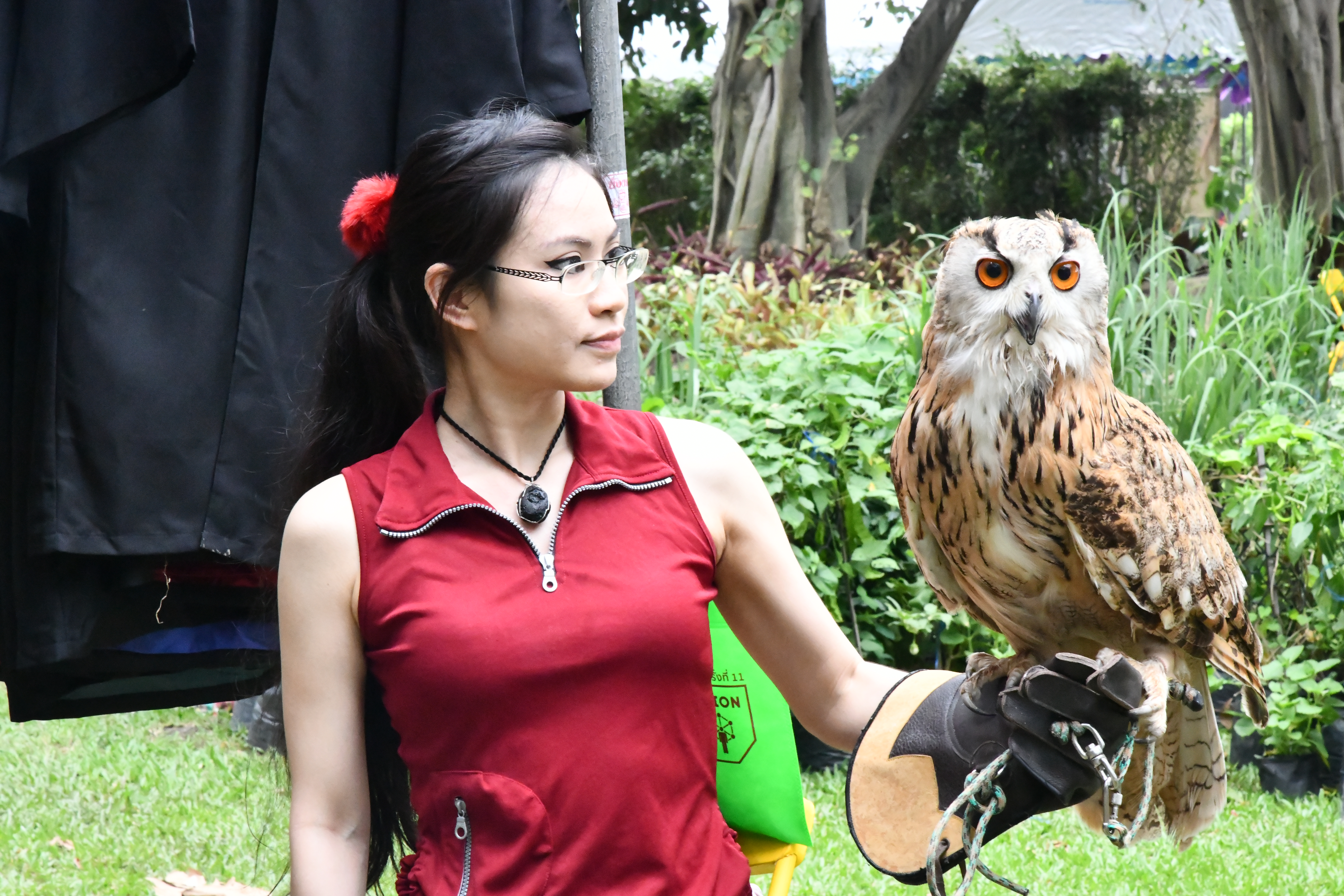 Siberian Eagle Owl at Queen Sirikit Park 2018